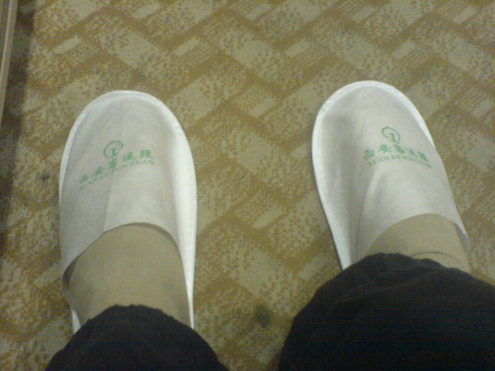 On the Xī'ān to Běijīng train